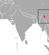 Shortridge's Langur (Trachypithecus shortridgei) range